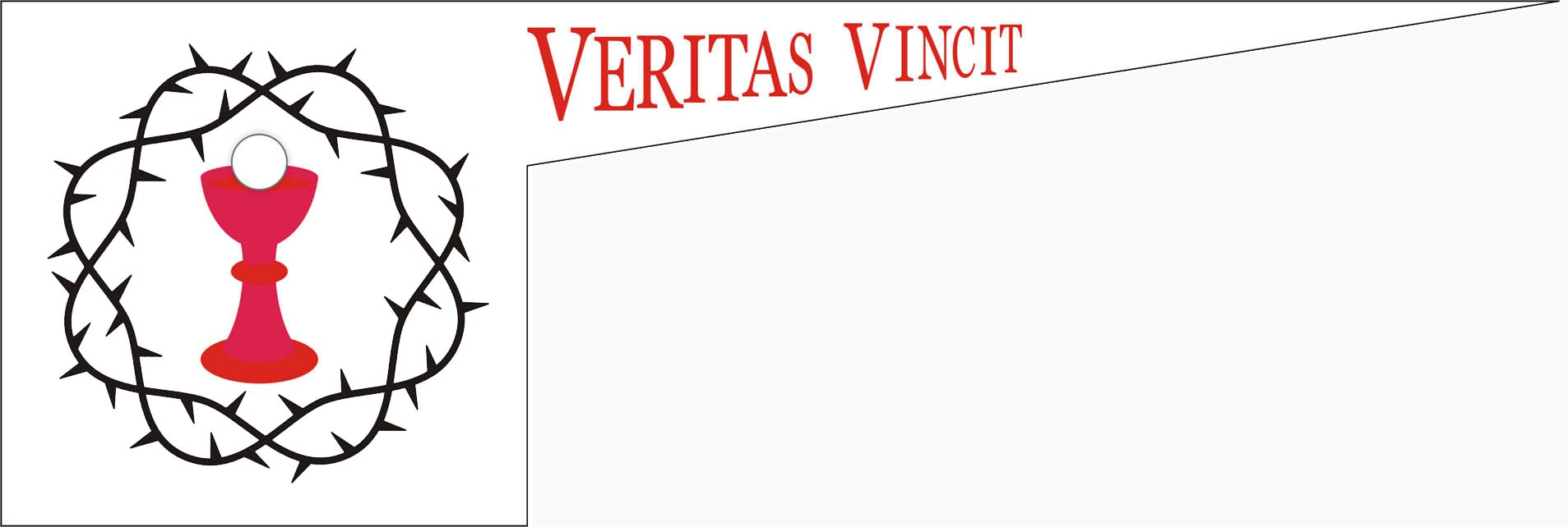 Standard of one of Bohemian hussite army from 15th century – Taborites (Czech Táborité or Táboři)